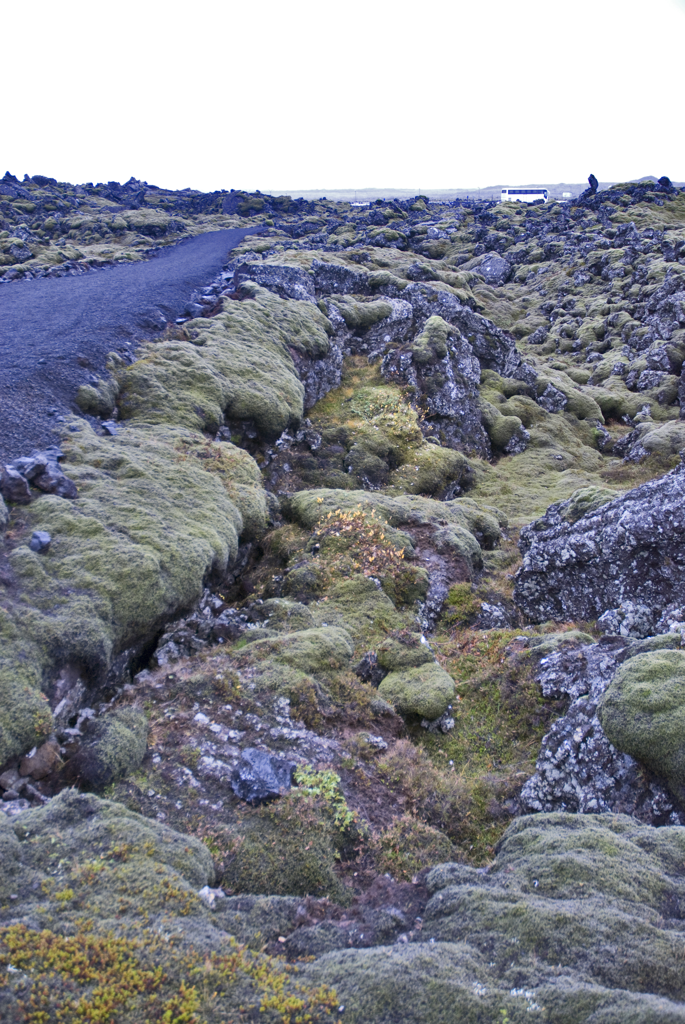 The blue Lagoon, Iceland